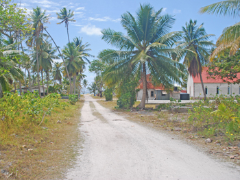 Garumaoa village, Raroia